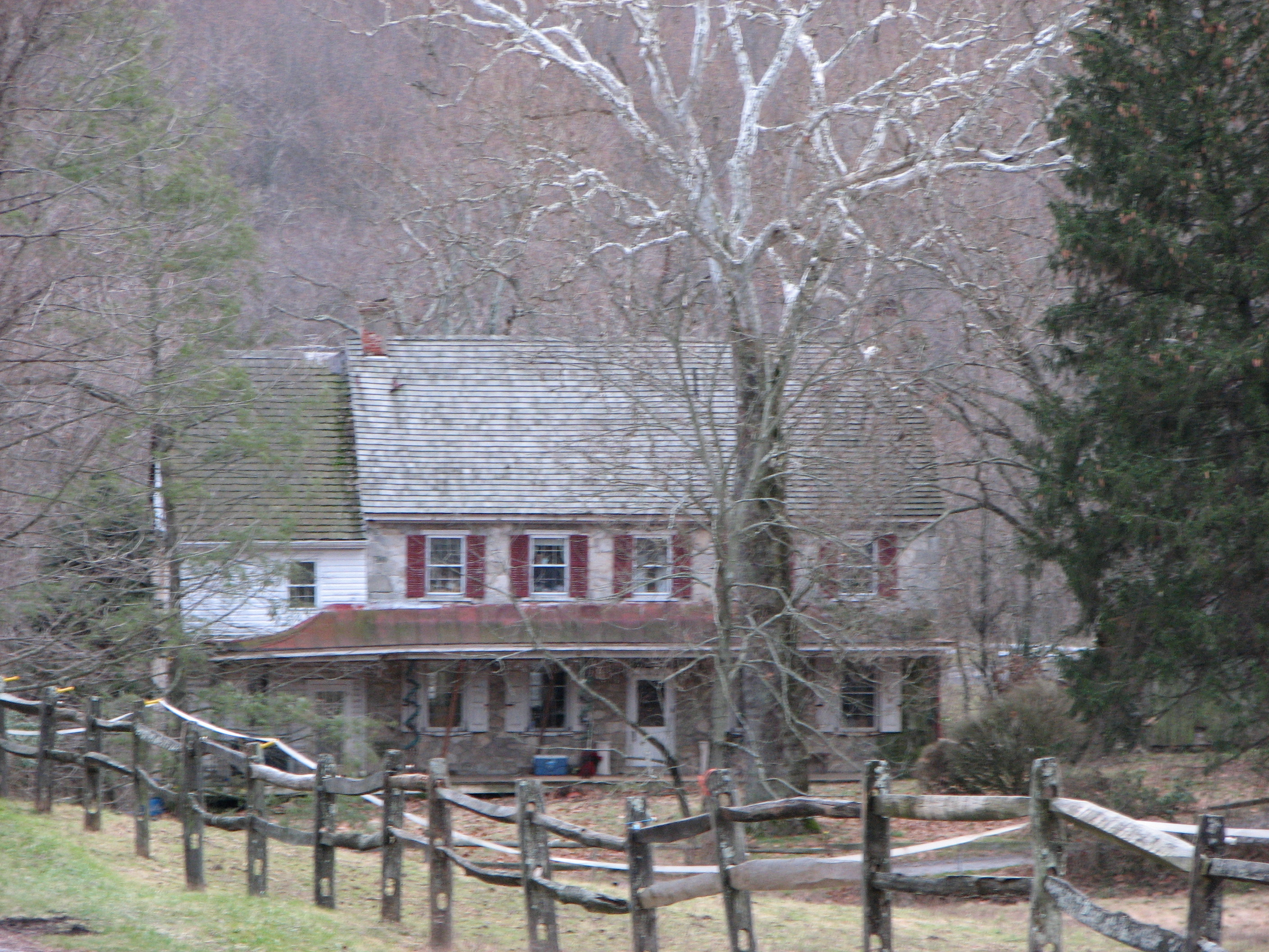 The house at Springdale Farm, Mendenhall, Chester County, Pennsylvania, a property continuously owned by the Mendenhall family since 1703. The oldest part of the house dates from 1718.